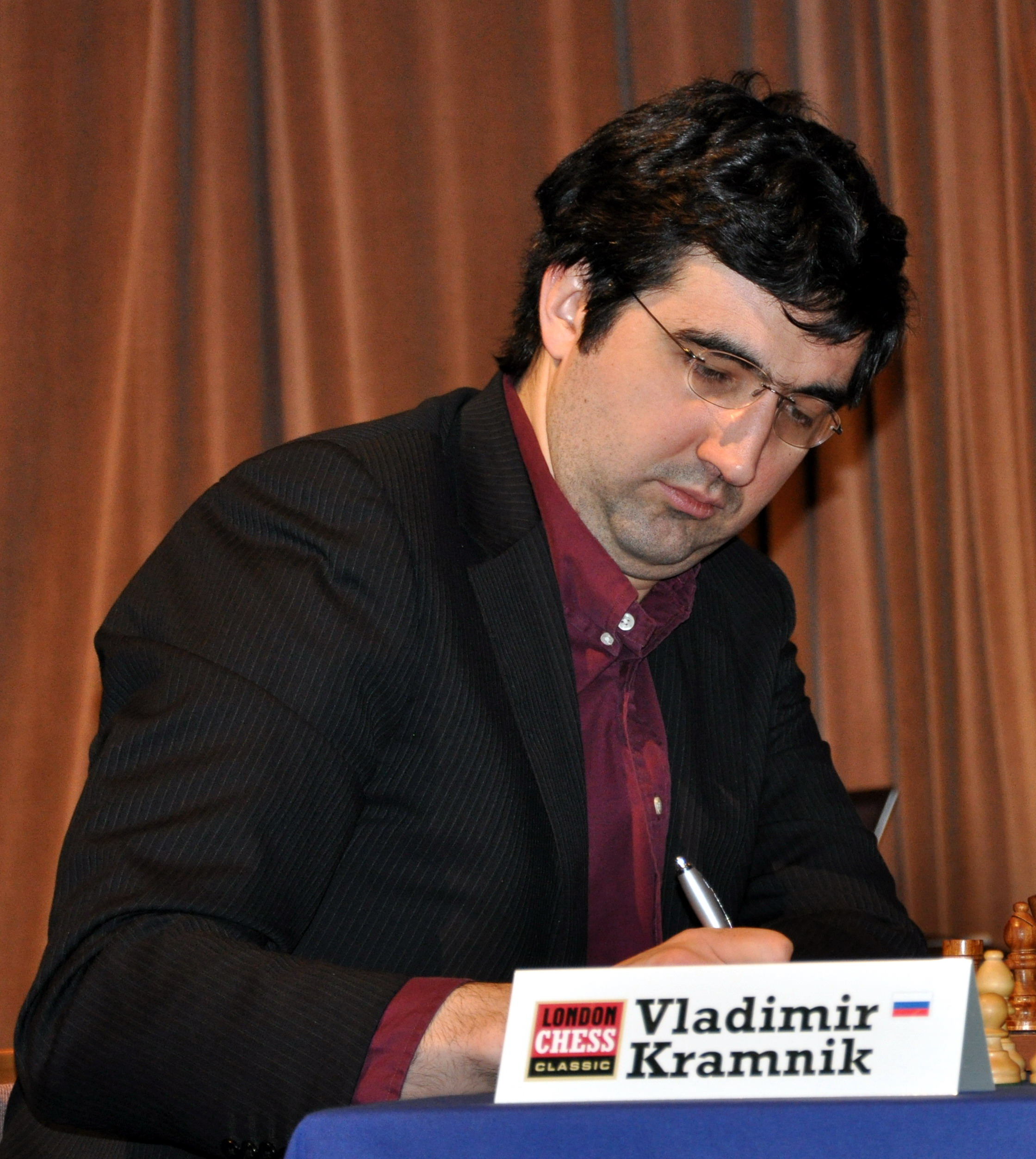 Vladimir Kramnik - London Chess Classic 2010